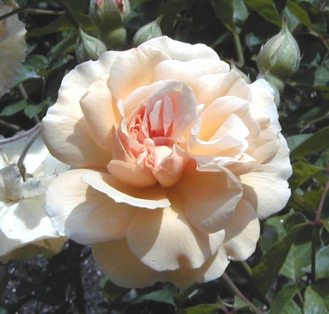 Rosa 'Buff Beauty', hybr. Moschata, sect. Synstylae. Real Jardín Botánico, Madrid, A. Barra.